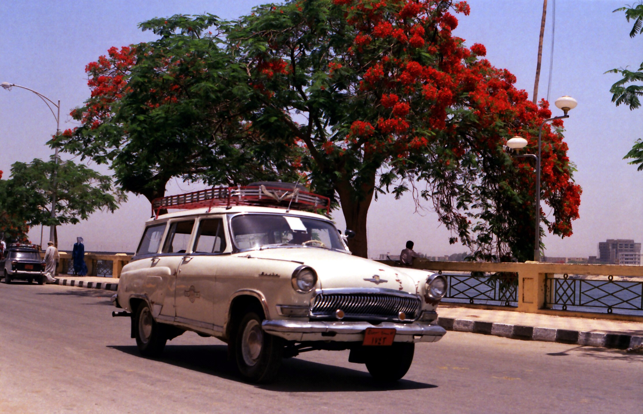 GAZ-M-22 or GAZ-22.